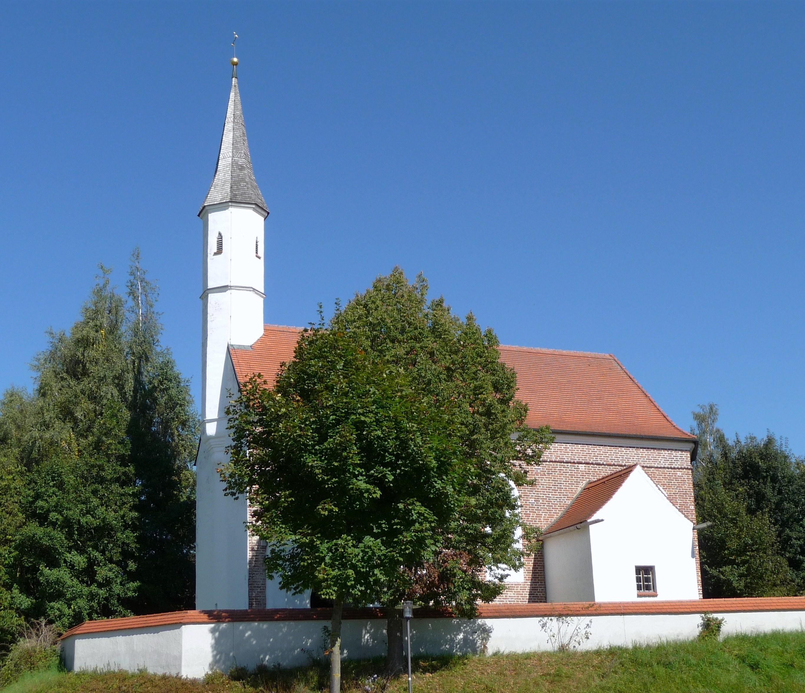 Church of Our Lady in Baierbach, Germany.